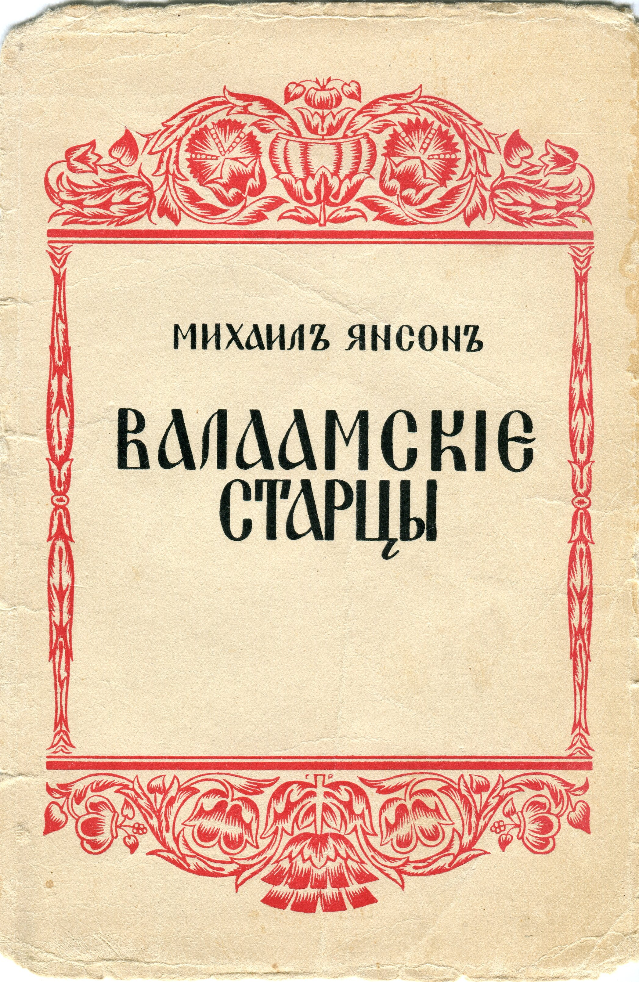 The cover of the first edition of the M.A.Janson's book "The Elders of Valaam" (Berlin, 1938)